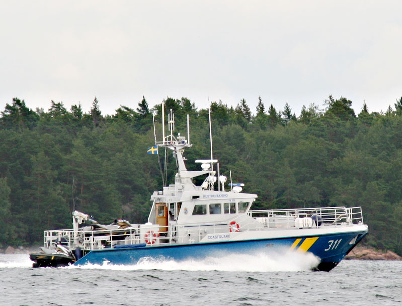 Swedish coast guard ship in Stockholm archipelago.